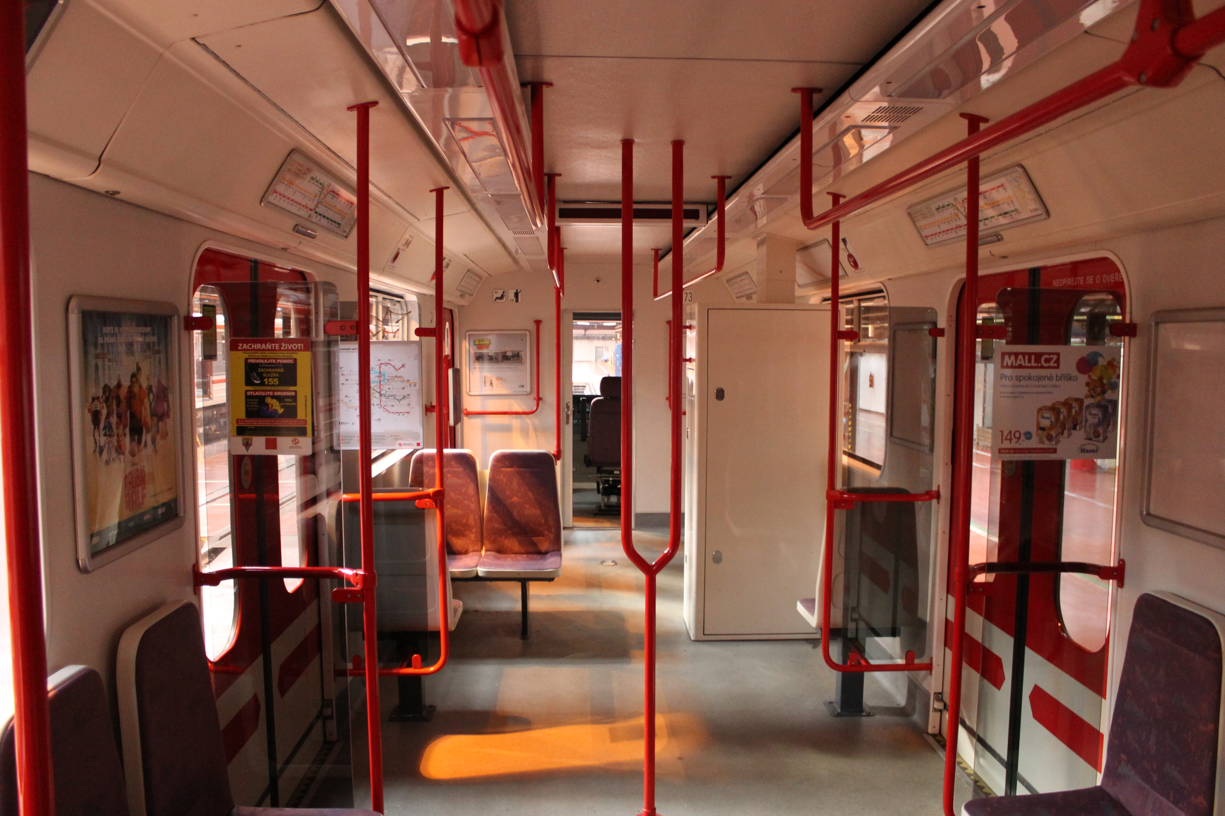 Interior of metro train 81-71M